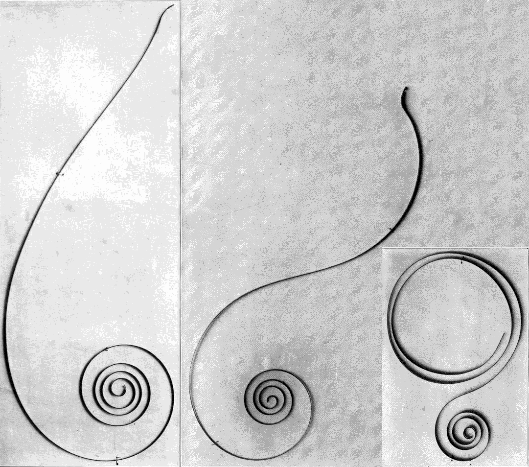 Photos of pocketwatch mainsprings made by Elgin Watch Co. around 1910, from a service bulletin published by the company. Shows three types (l-r): normal, semi-reverse, reverse. The reverse curves given to the outer portion of the spring in the last two types provided additional torque during the later part of the watch's running period as the spring was running down. This produced a more constant drive force for the watch movement, resulting in greater accuracy. Alterations: cropped out frames and captions, combined 3 separate photos, cloned background of 2nd photo to cover blank areas of composite, converted to PNG